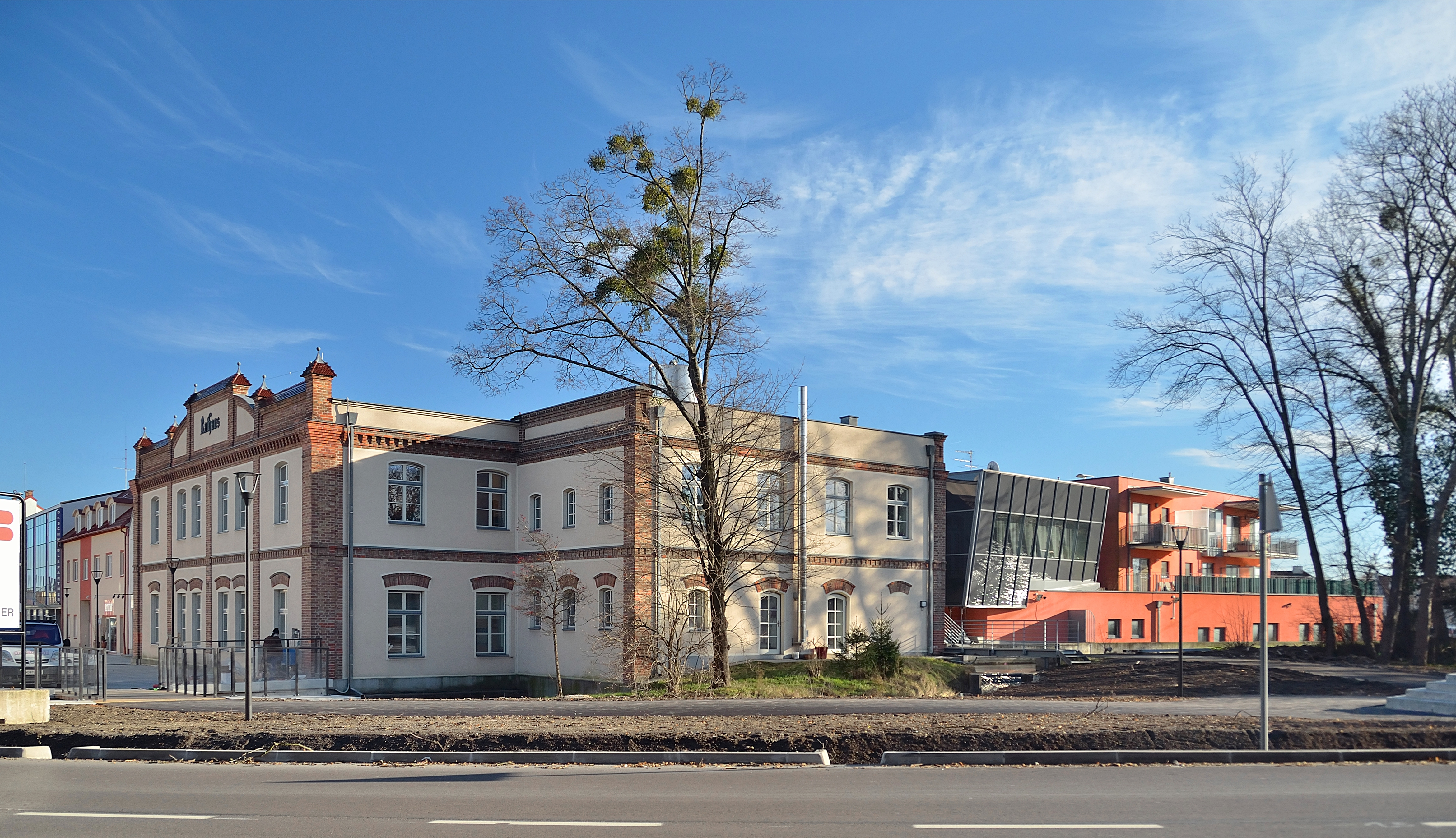 Town hall and municipality office in Ebreichsdorf, Lower Austria. Former textile factory Regner und Rücker in Ebreichsdorf.